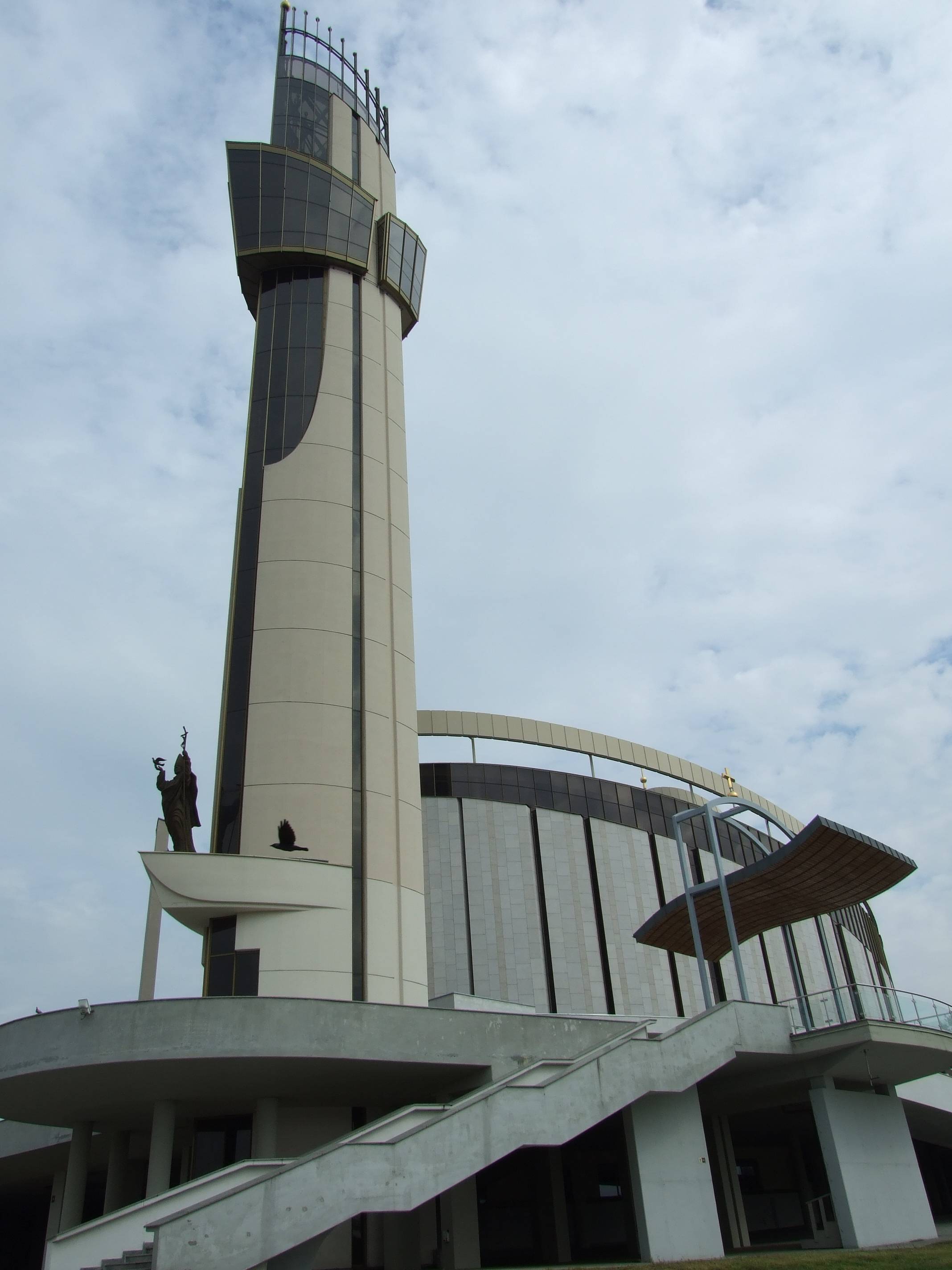 The Sanctuary of the Divine Mercy in Kraków-Łagiewniki (Poland)